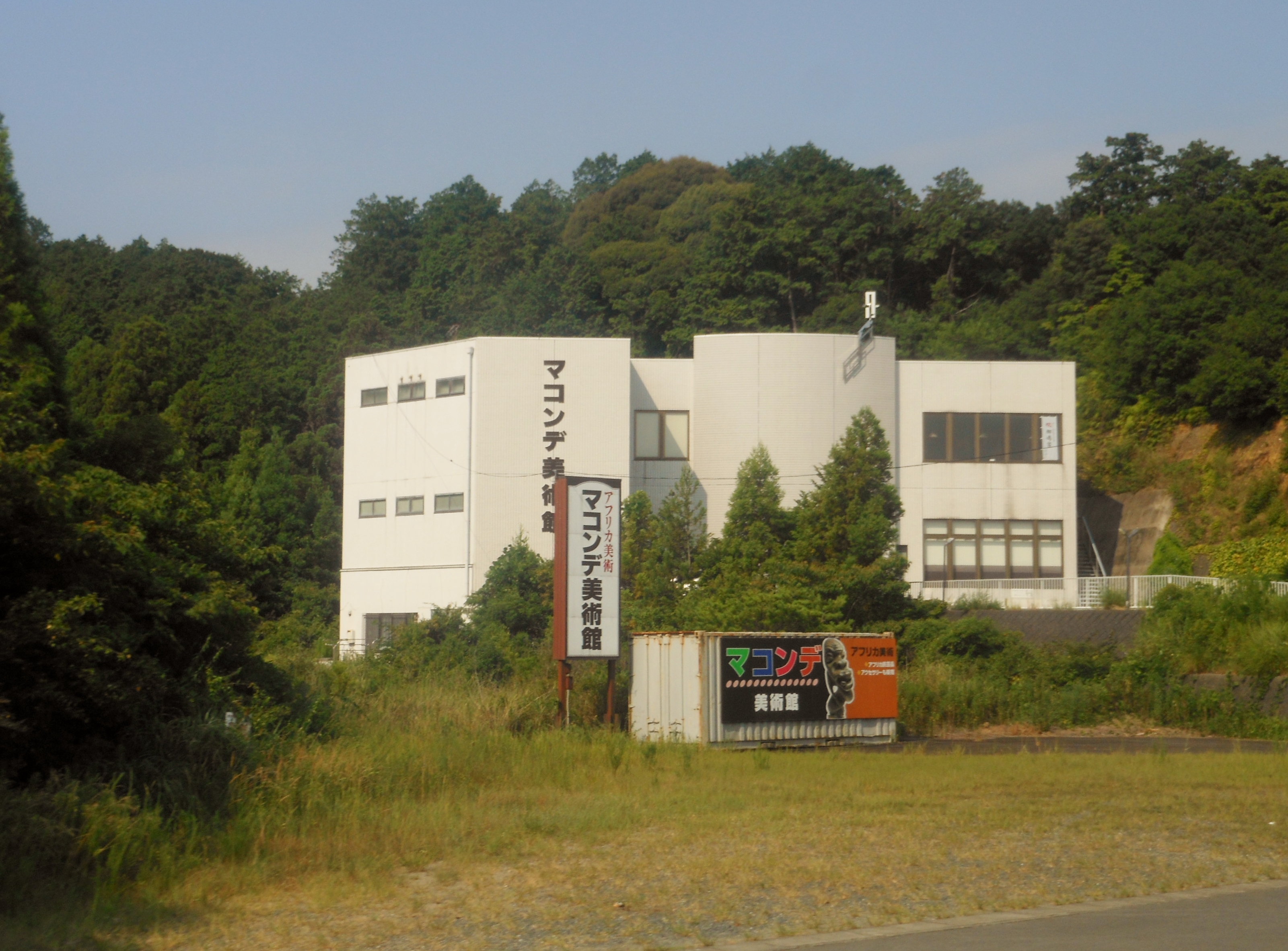 This is the Makonde Art Museum, which is located in Futamicho-Matsushita, Ise, Mie, Japan.